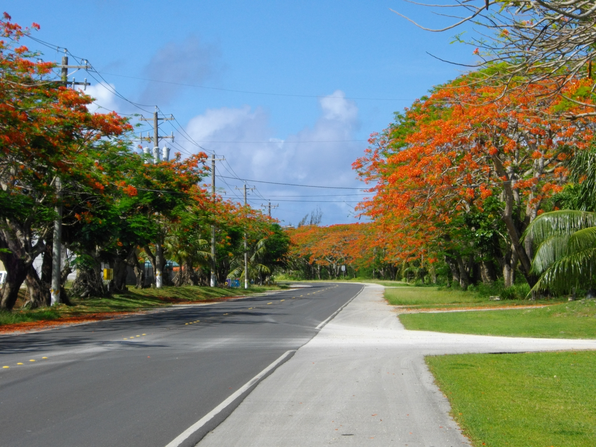 Tun Herman Pan Road